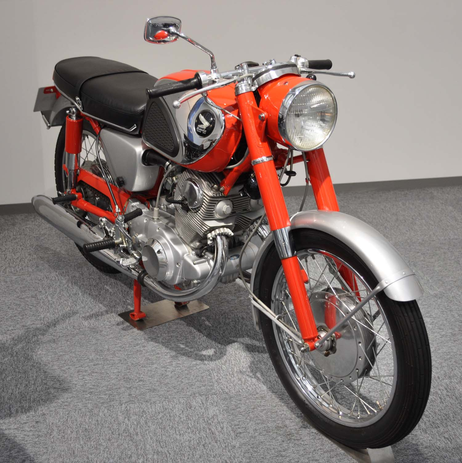 Honda Dream CB72 Super Sports (1960)